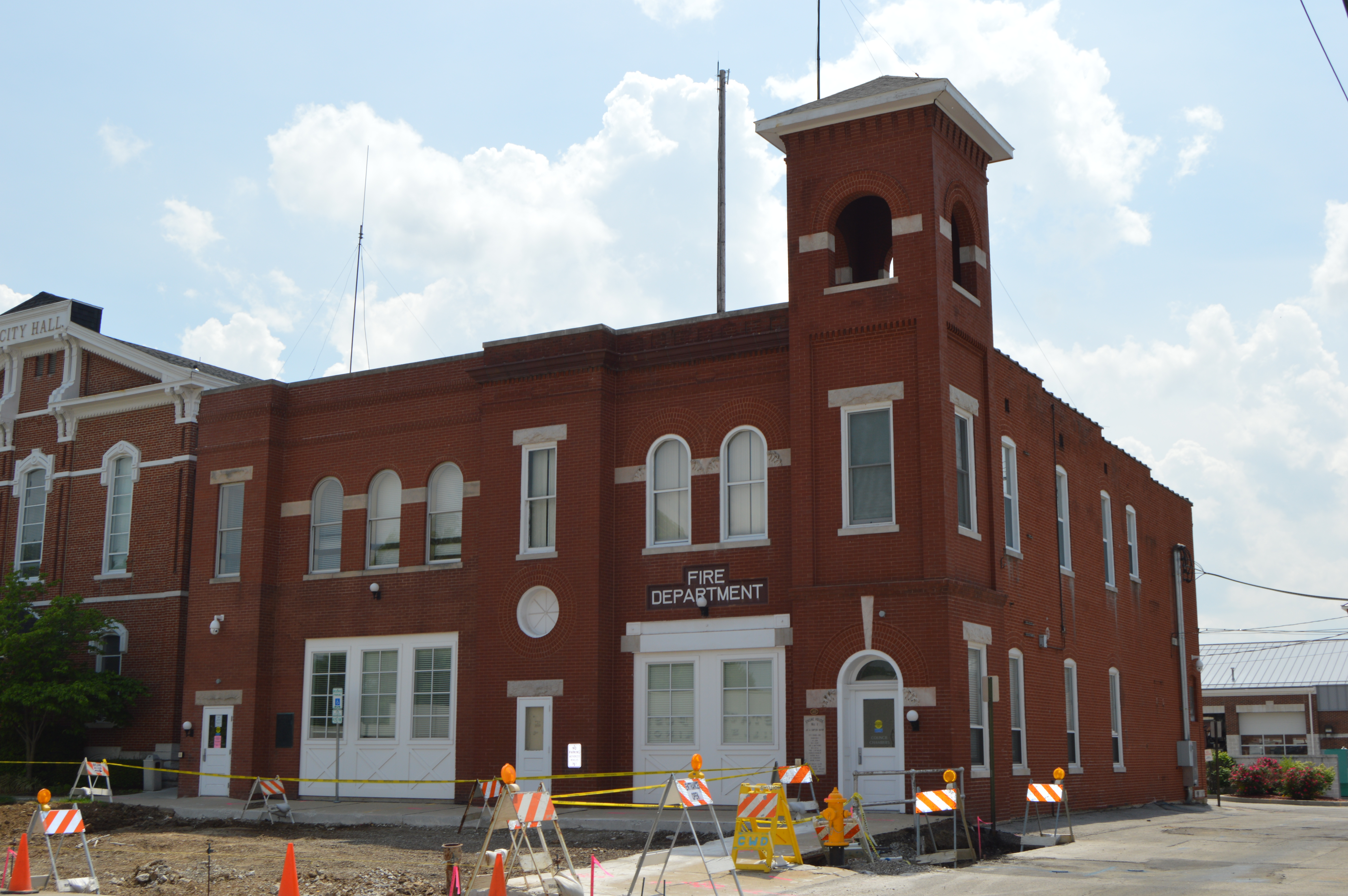 Front of the Collinsville City Hall and Fire Station, located at 125 S. Center Street in Collinsville, Illinois, United States. Built in 1885, it is listed on the National Register of Historic Places.